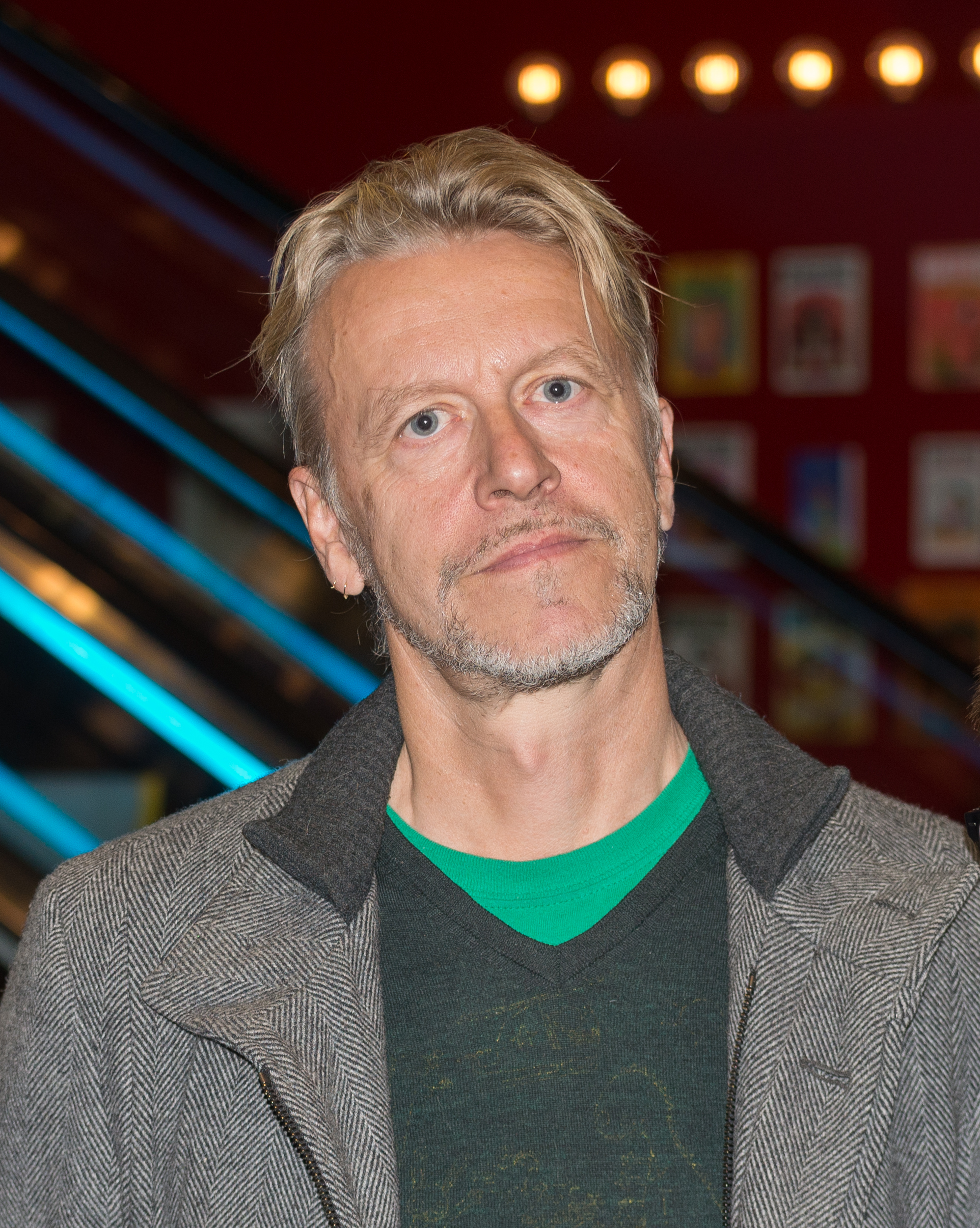 What is art and what is it good for? Conversation at Kulturhuset/Stadsteatern with Stina Oscarson, Lars Anders Johansson and Wilhelm von Kröckert/ Ernst Billgren.